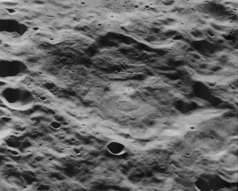 Oblique view of Houzeau crater, on the far side of the moon, facing west.